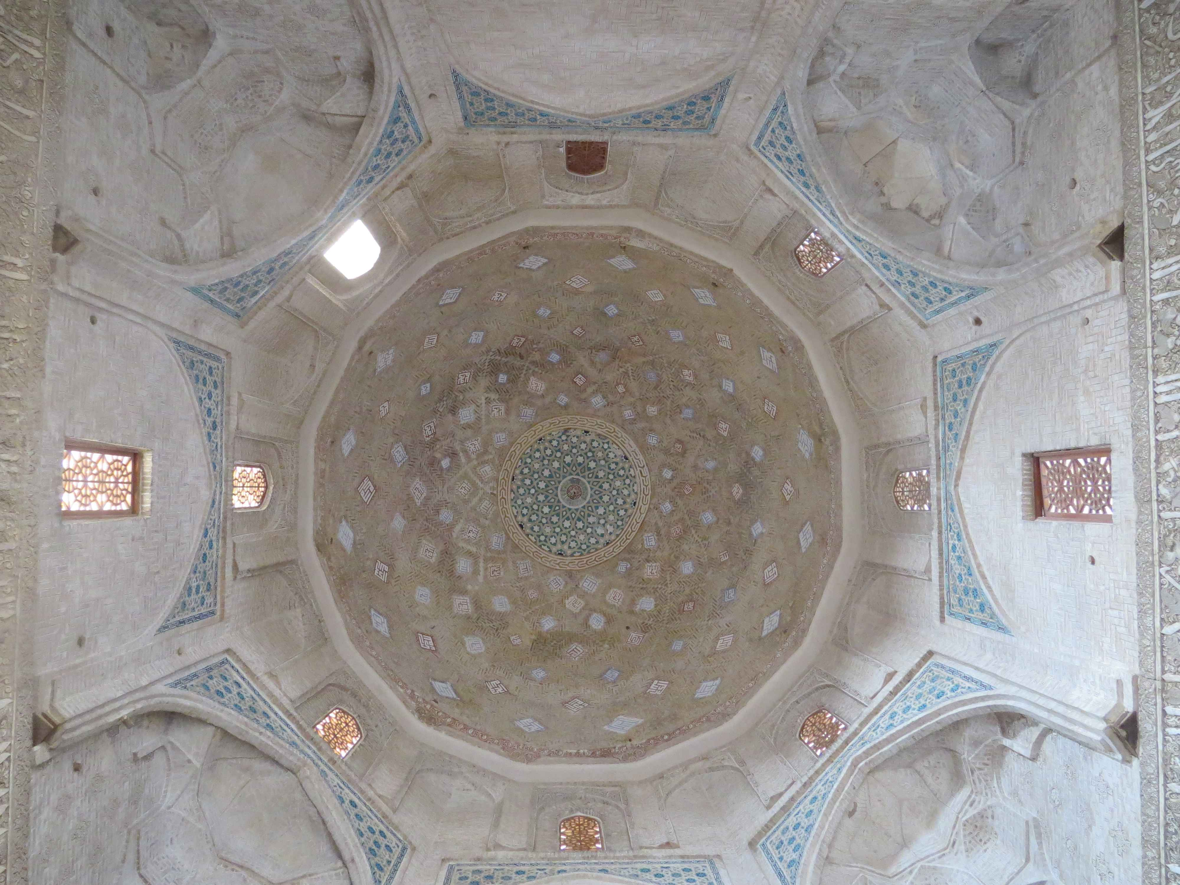 The interior Image of the Varamin Grand Mosque.